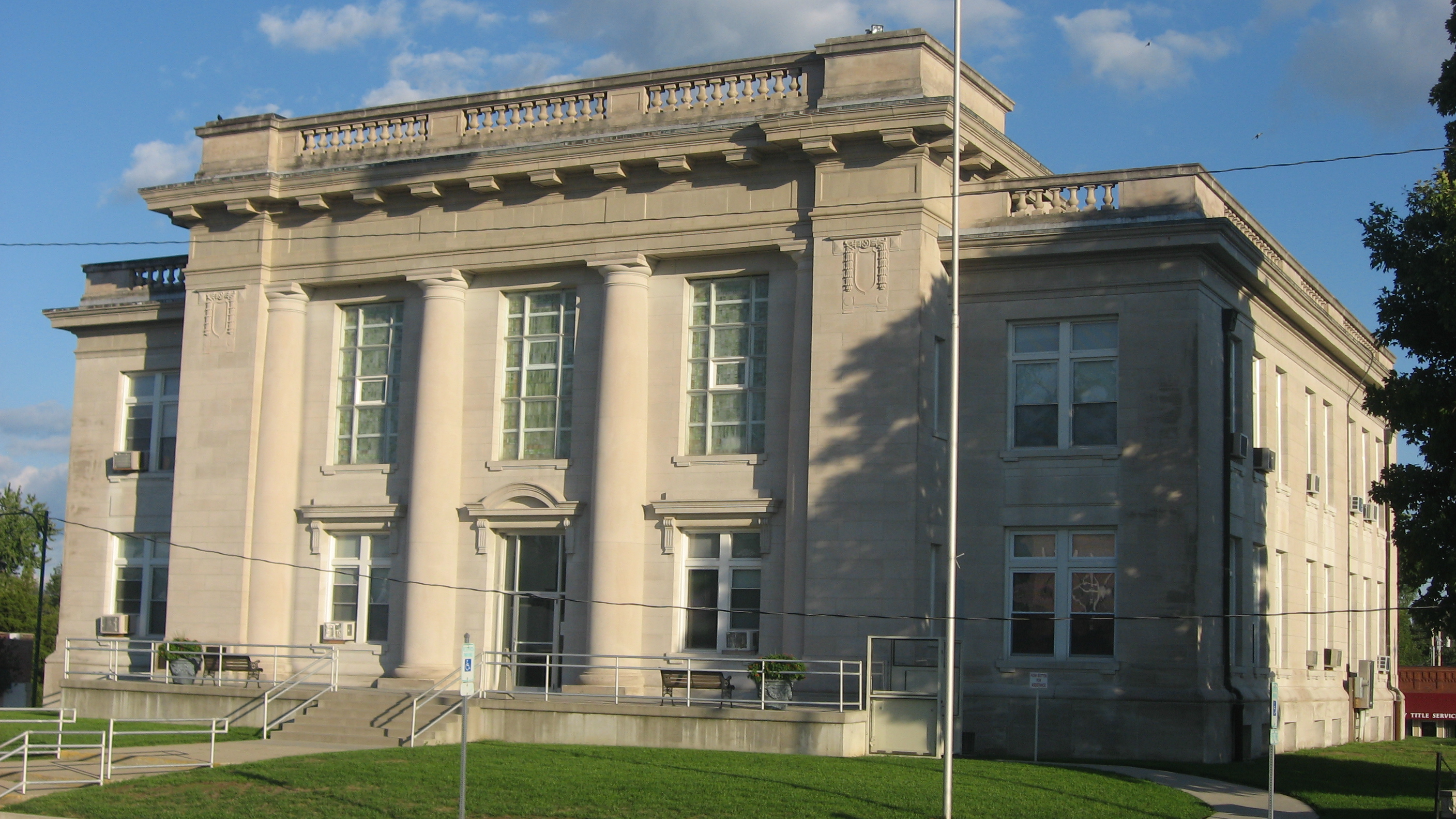 Northern and western sides of the Clay County Courthouse, located on Courthouse Square in downtown Louisville, Illinois, United States. It was built in 1912.